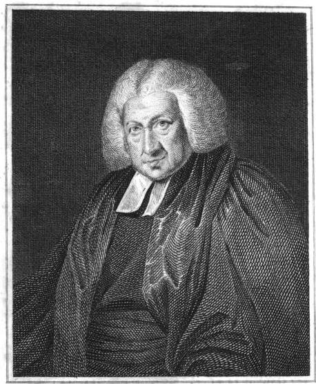 Portrait of Thomas Seward (1708 – 1790), English Anglican clergyman and author.